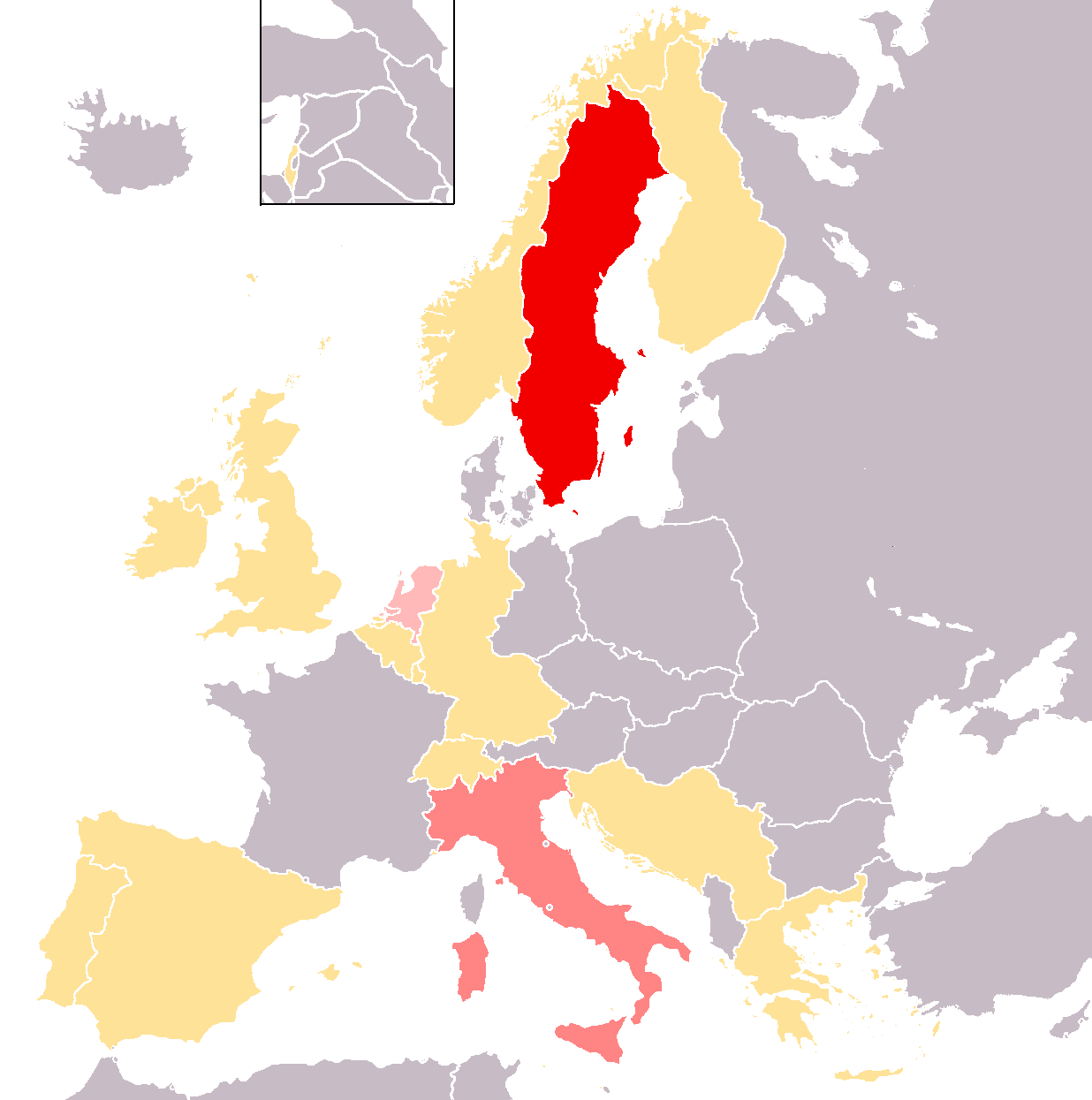 Map of Eurovision 1974